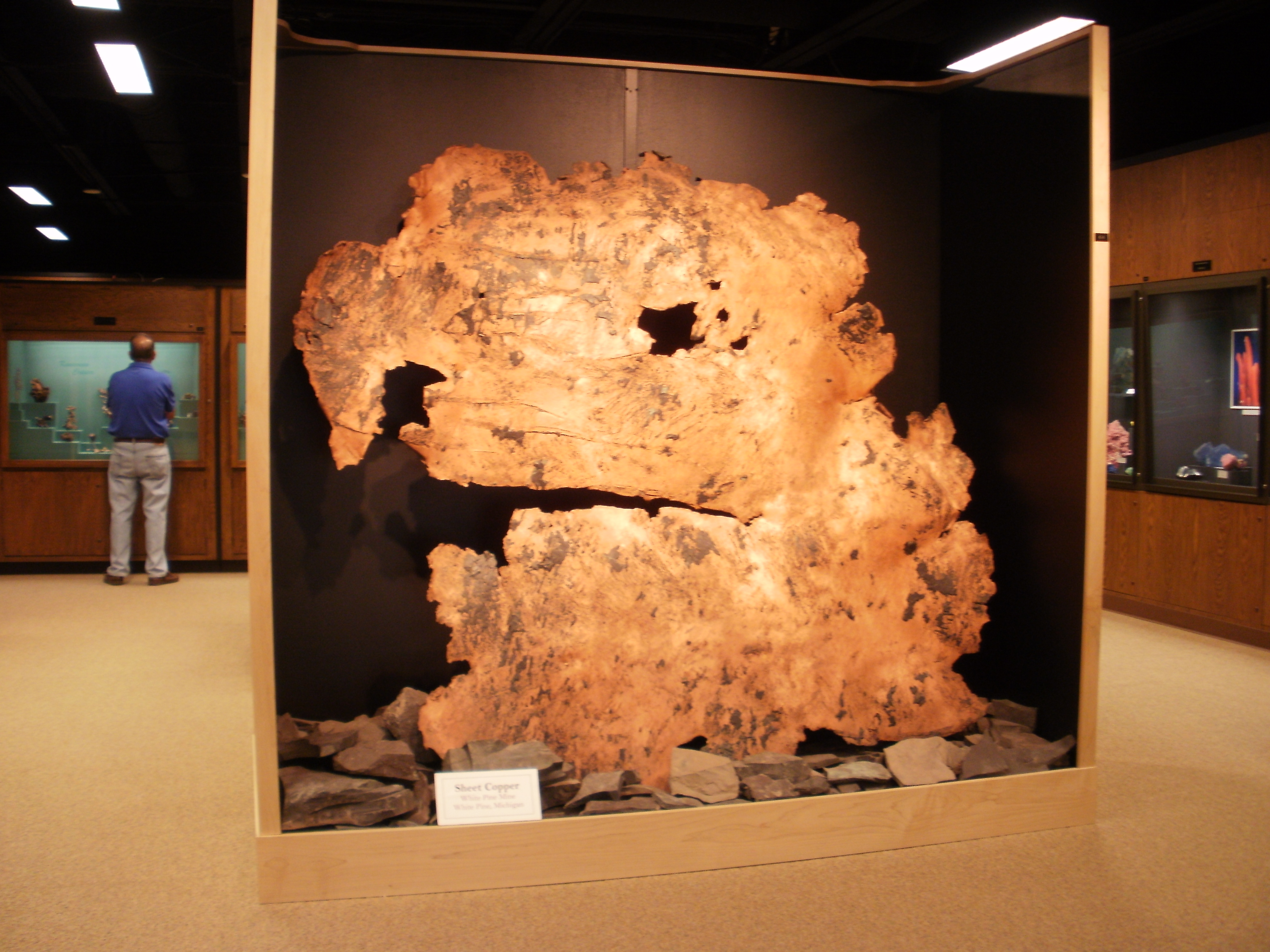 A large piece of sheet copper from the White Pine mine at the entrance of the A. E. Seaman Mineral Museum.